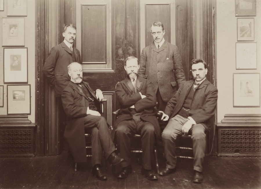 Creator: Unknown Date: 1908 Format: Photograph Material: Paper Collection: The Royal Photographic Society Collection at the National Media Museum Inventory no: 2003-5001/2/22843 Blog post: Snappy 5th birthday Flickr Commons Full title reads: [standing:] C. F. Stuart, J. Dudley Johnston; [sitting:] Dr. J. W. Ellis, Dr. C. Thurstan Holland, Chairman, Charles F. Inston, Secretary - Northern Photographic Exhibition, Liverpool. John Dudley Johnston (1868 - 1955) was born in Liverpool. He studied music and was, at one time, Director of the Liverpool Philharmonic Society. He was a noted Pictorialist photographer, a collector, curator and driving force behind the Royal Photographic Society's photographic collection. He was an elected member of the RPS in 1907; admitted FRPS in 1925; awarded Hon. FRPS in 1925; President of the RPS 1923 to 1925 and again 1929 to 1931; awarded RPS Progress Medal in 1952. Curator of the RPS Collection from 1924 to 1955. Elected Member of the The Brotherhood of the Linked Ring, 22 Oct 1908. Awarded OBE for services to photography in 1948. Charles Frederick Inston (d. 1917) became Secretary then President of the Liverpool Amateur Photographic Society. He was an elected member of the RPS in 1896 and Fellow in 1901; organiser of the Northern Photographic Exhibition.